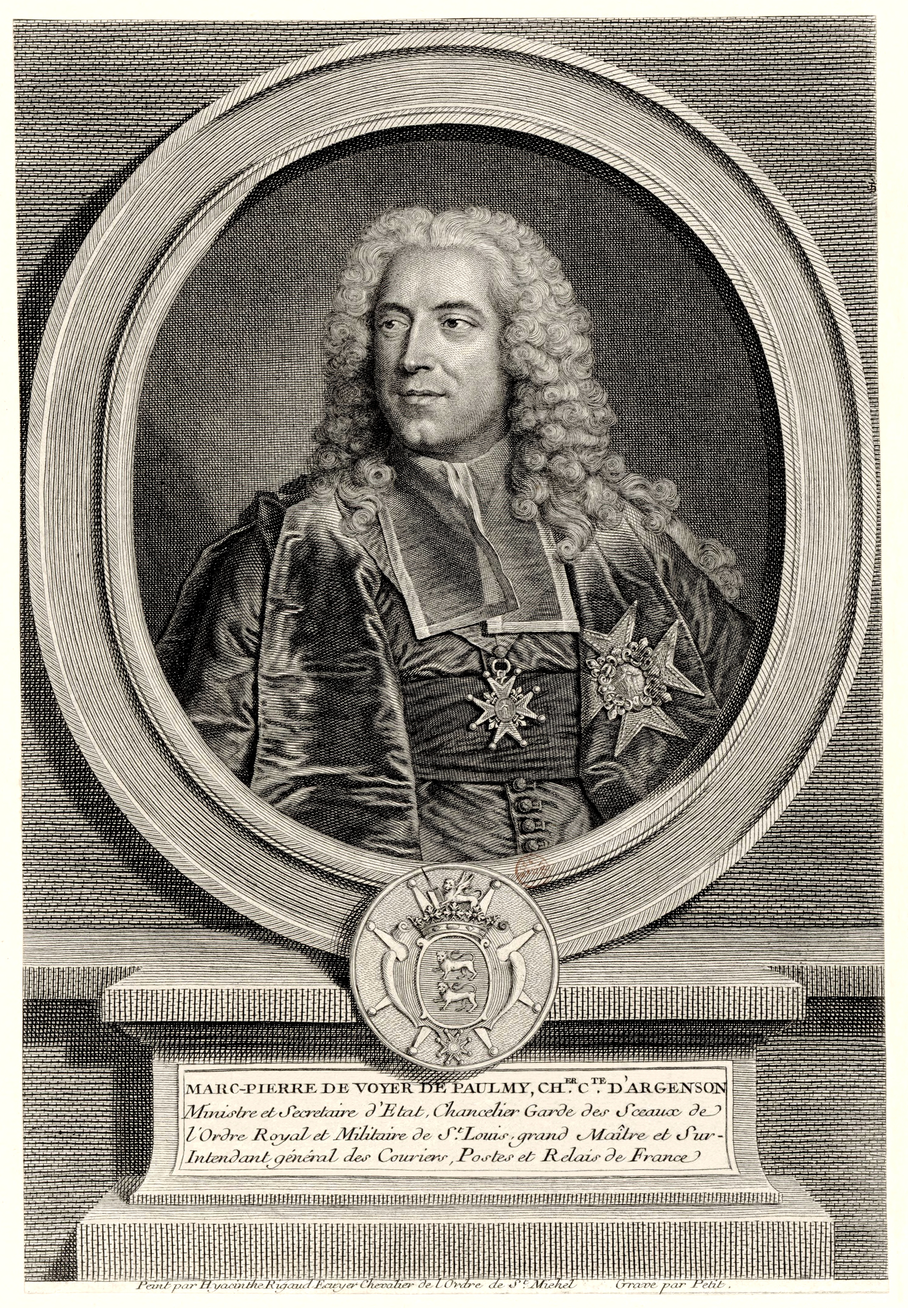 Marc-Pierre de Voyer de Paulmy d'Argenson (1696 - 1764), french politician.